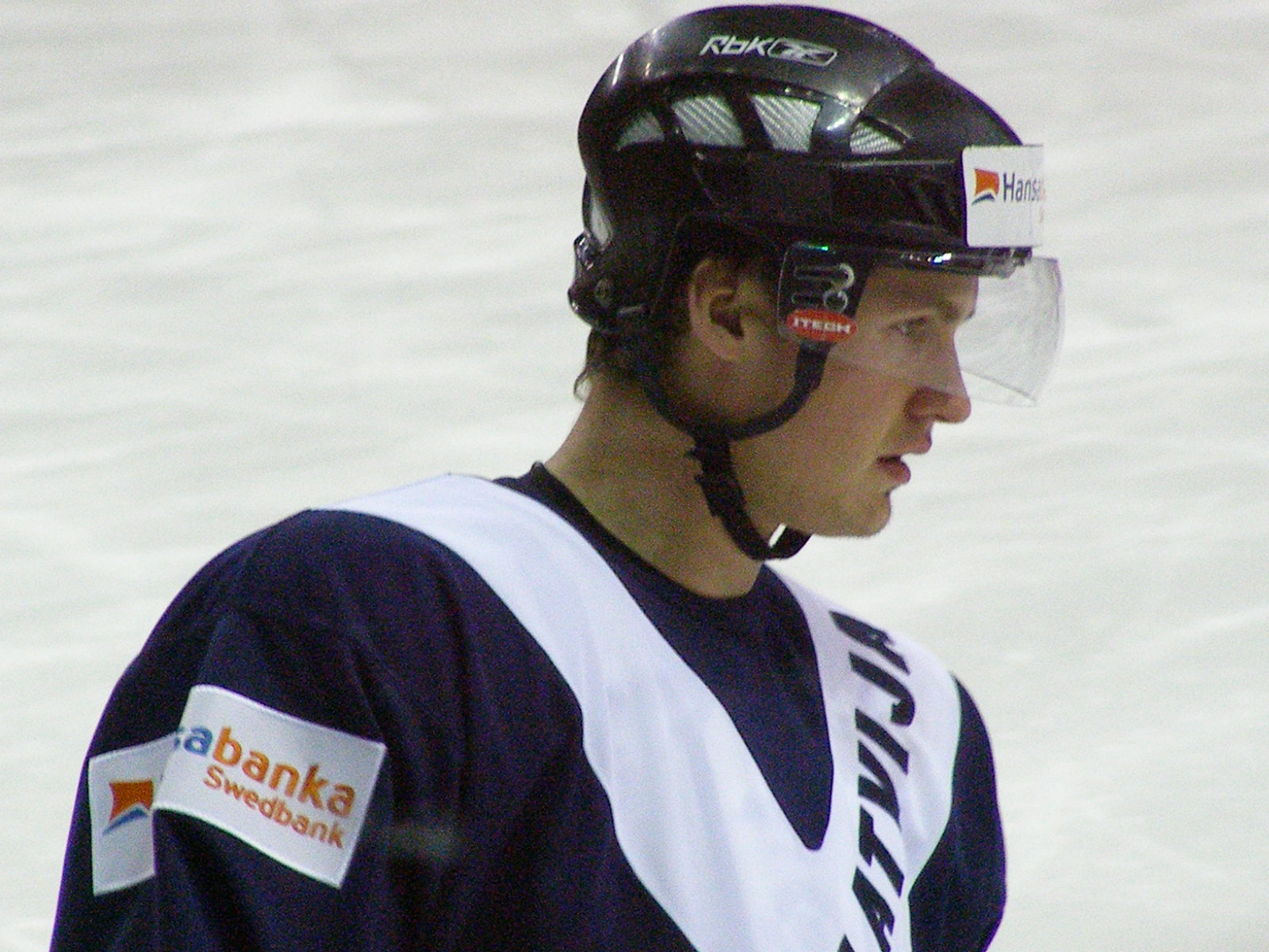 Armands Bērziņš /Canada VS Latvia (IIHF World Hockey Championship in Halifax NS, May 4 2008)/